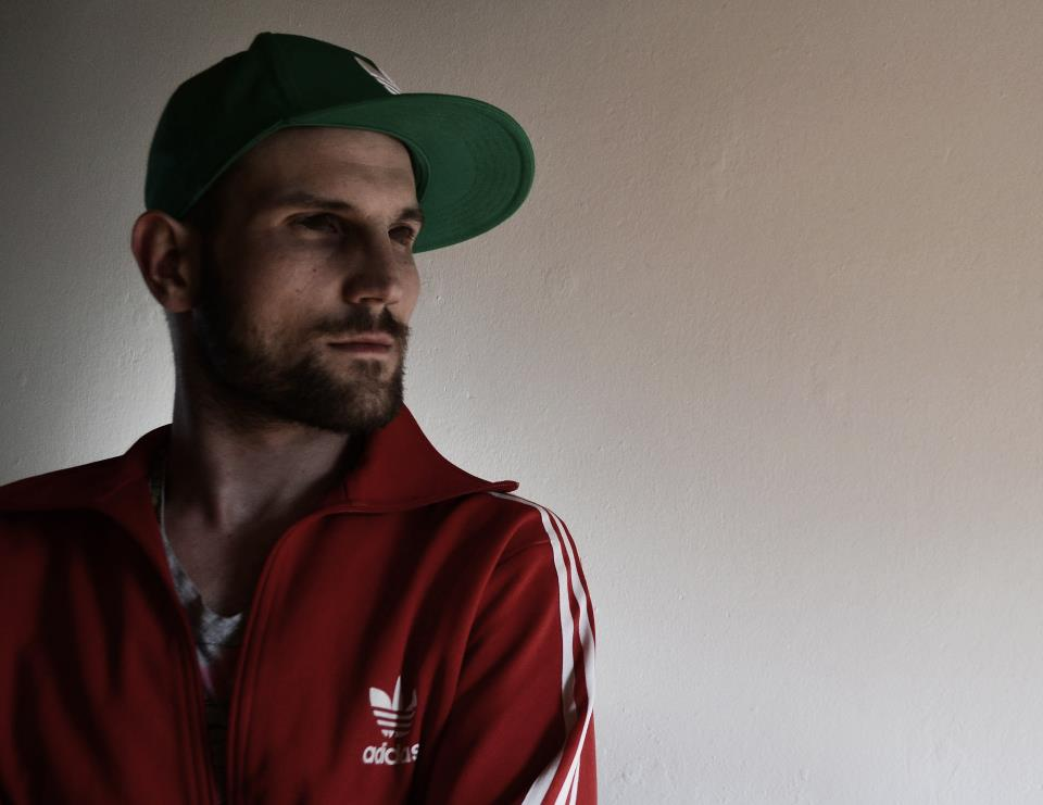 Portrait of Tobias from Klangkarussell